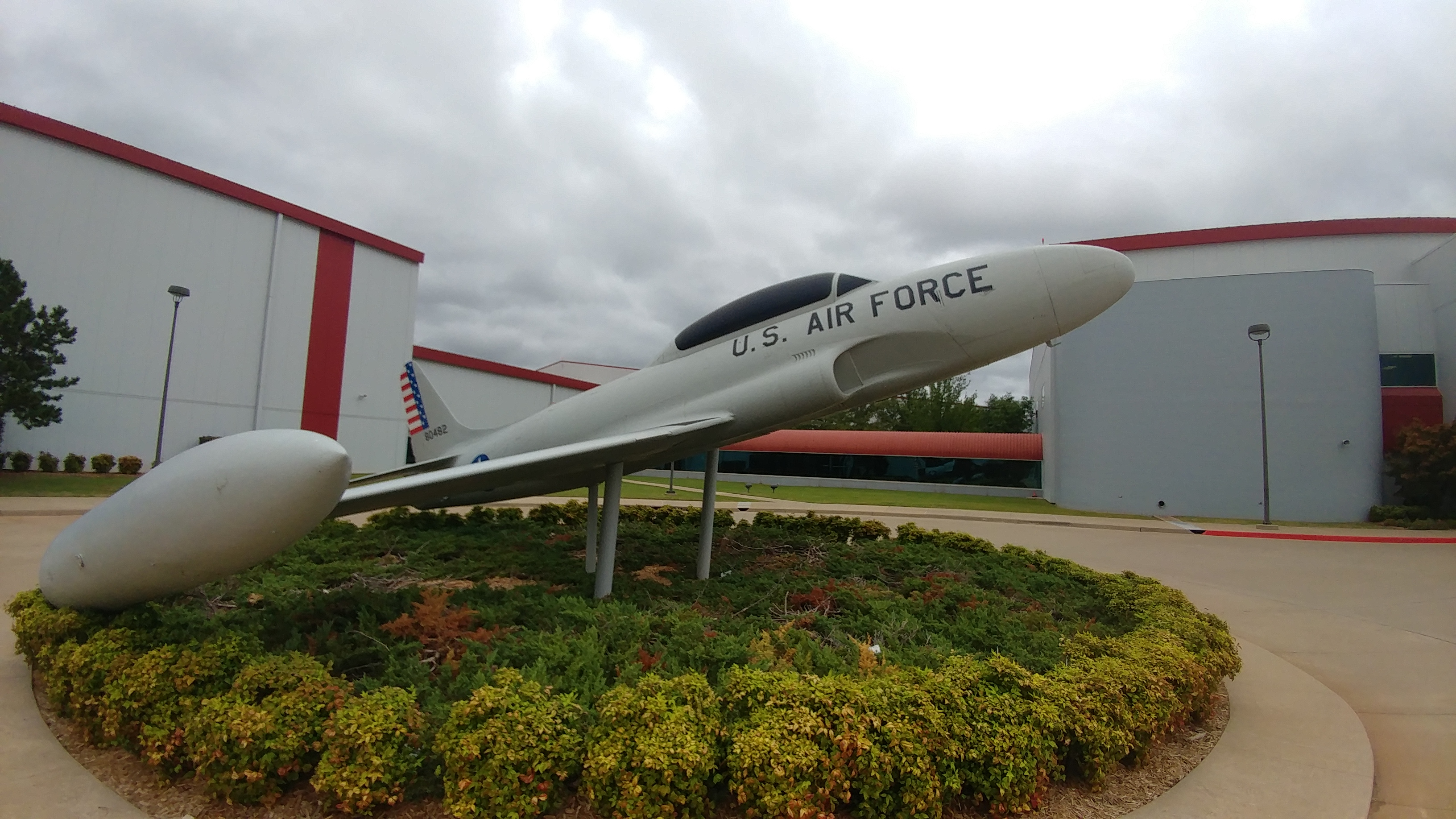 Lockheed T-33A; Air Force S/N 53-6011. Once operated by NASA-Johnson MSC in the 1960s & possibly flown by the astronauts.